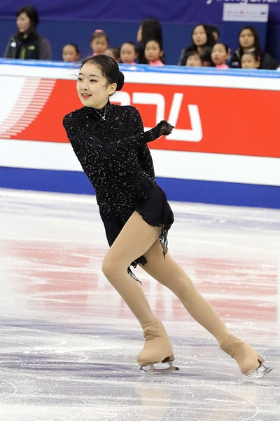 Zijun LI CHN – 7th Place